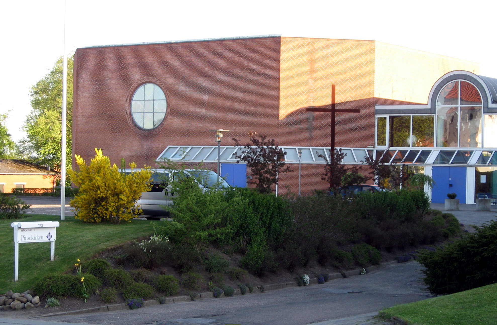 Århus Pinsekirke (the pentecostal church of Århus) in Hasle, Århus, Denmark.